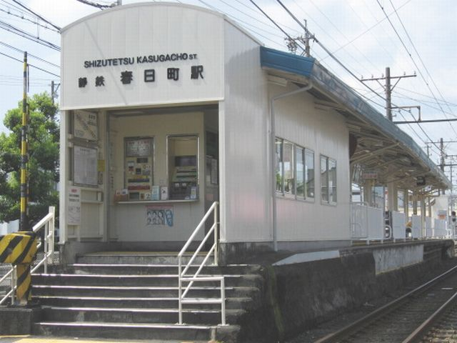 Kasugachō Station on the Shizuoka-Shimizu Railway